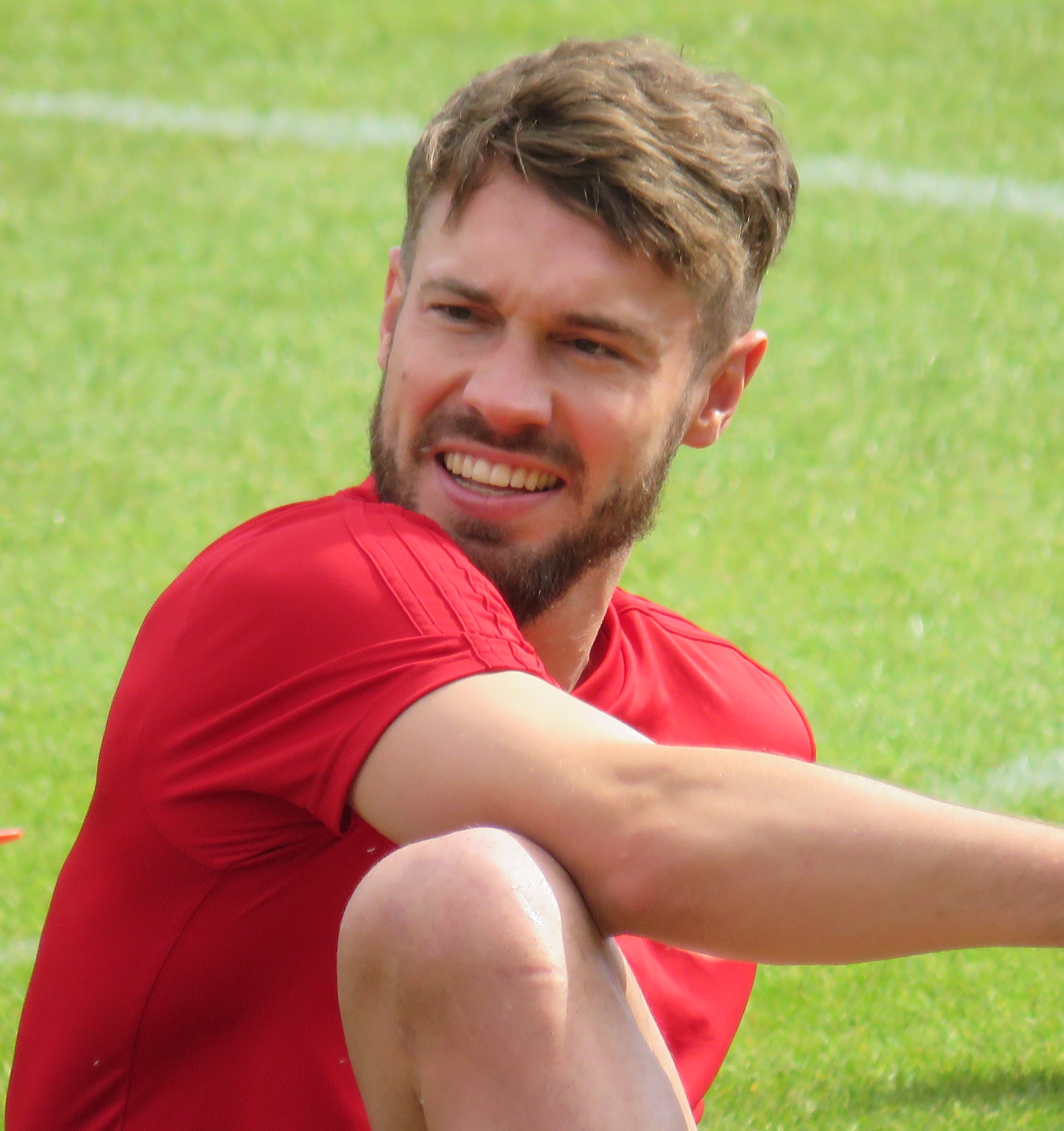 Aaron Ramsey training with Wales football squad, Wrexham